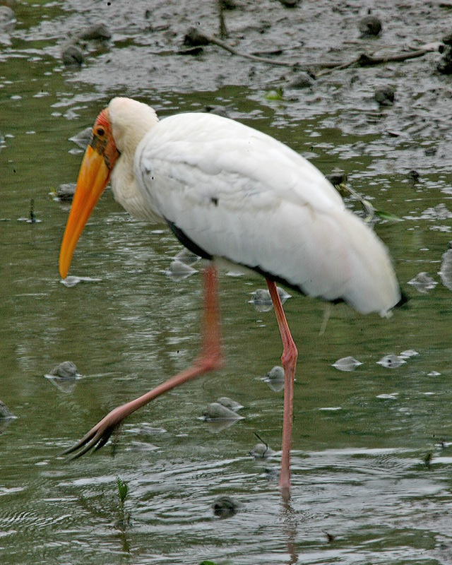 Milky Stork Mycteria cinerea Sungei Buloh Wetland Reserve, Singapore December 26, 2005 Alt. names: Milky Stork, Milky Wood Stork, Southern Painted Stork Indonesian: Bangau putih susu bluwok, Blao, Kedidi leher merah